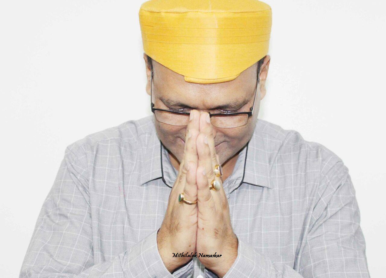 Namaste, Namaskar, Mithila, Birbal Jha